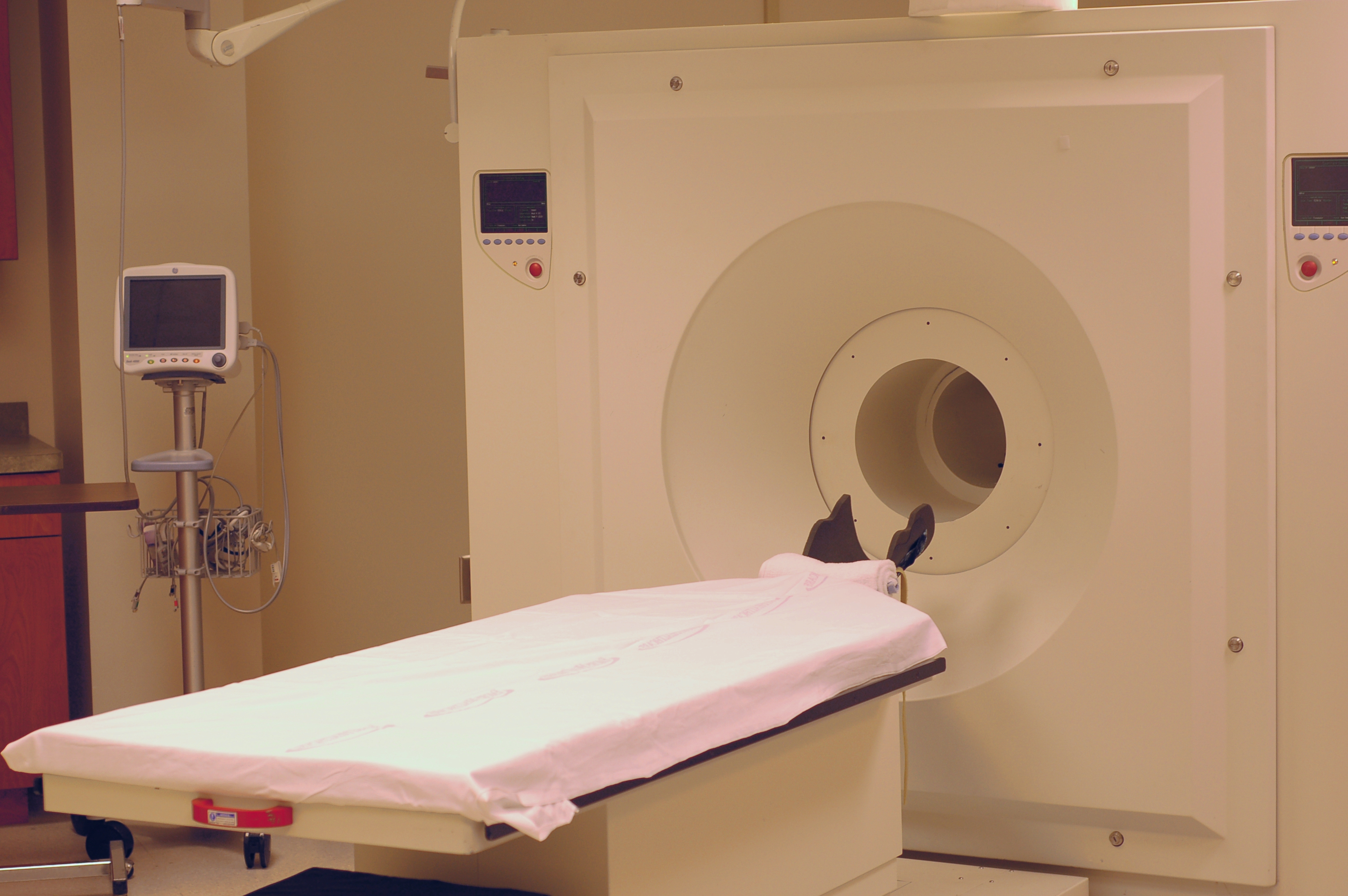 High Resolution Research Tomograph (HRRT) PET Scanner at the Emory University, Center for Systems Imaging